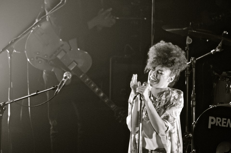 Andreya Triana performing at Union Chapel, London in 2013.